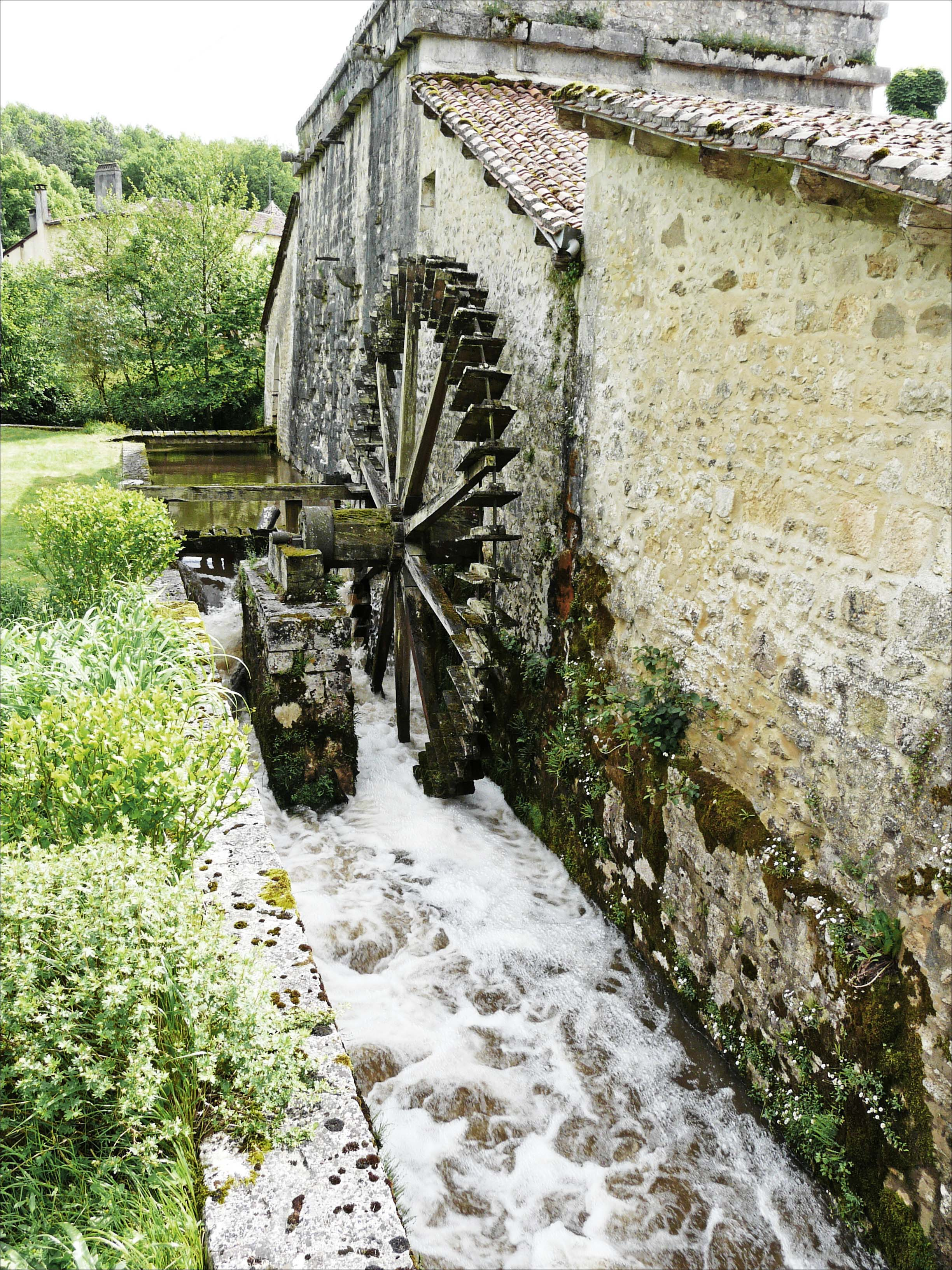 Marly Machines.Water wheel for the blower of the forge.